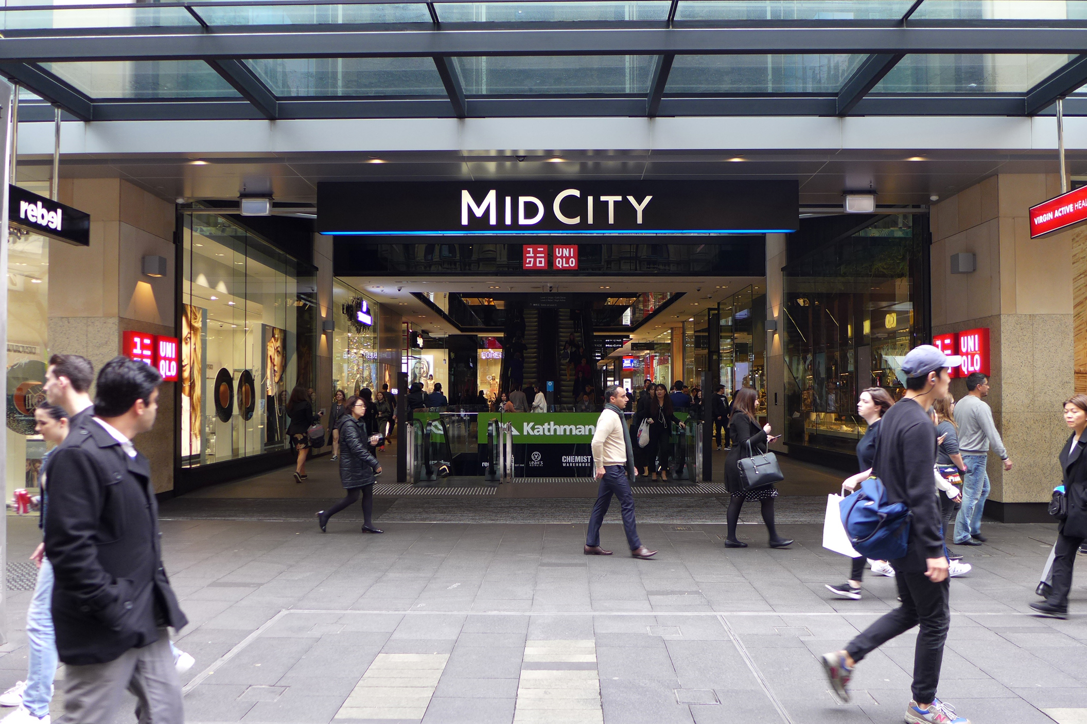 Mid City